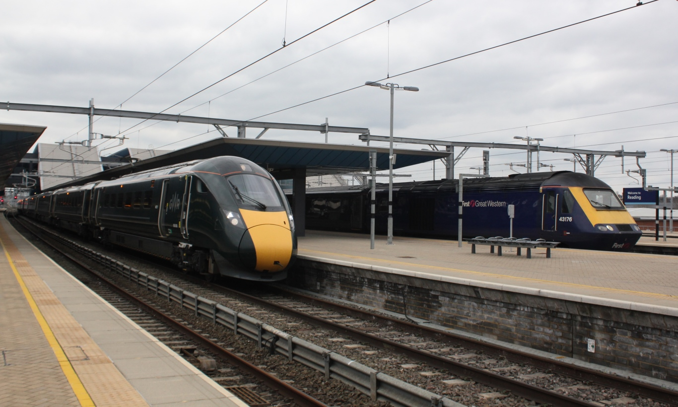 InterCity Electric Train 800008 (with 800022 coupled behind) and diesel InterCity 125 43176 both wait for their turn to leave Reading for London Paddington.